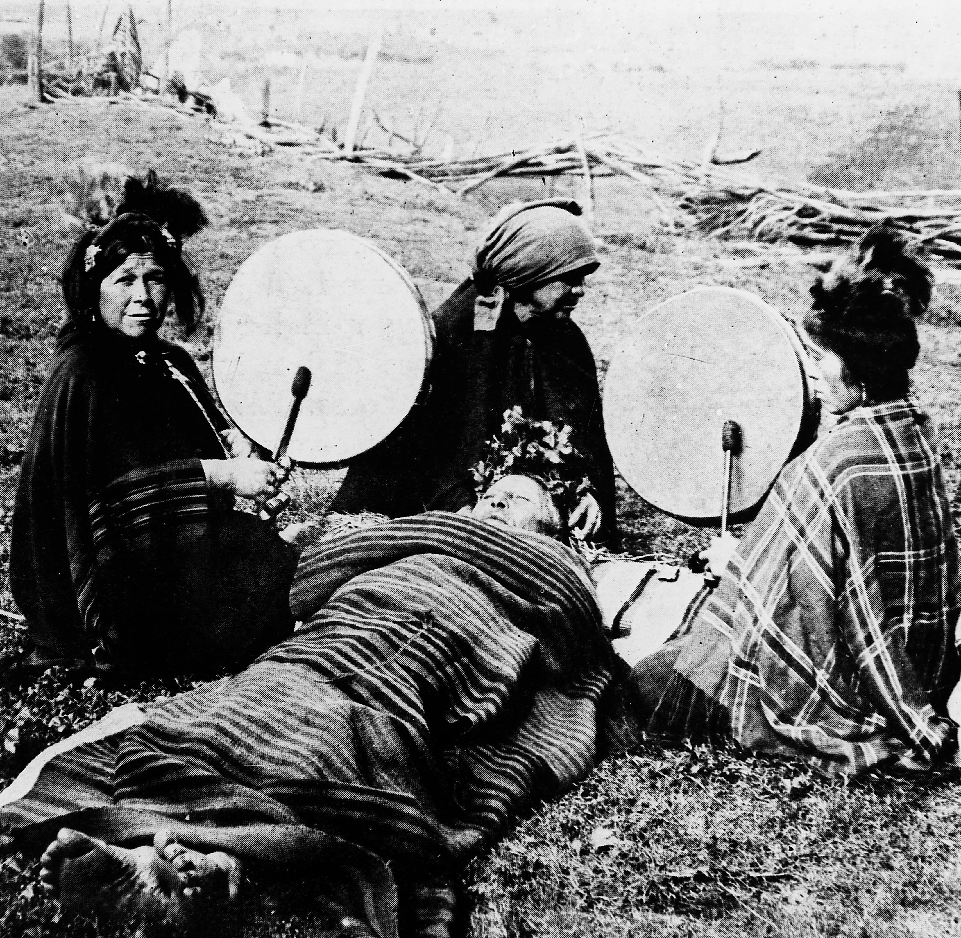 Mapuche medicine woman treating a patient, South Chile. Wellcome Images Keywords: indigenous : culture; Magic; non-european; Ethnography; Religion